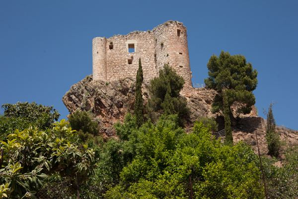 Castillo de Alburquerque; Huelma, Andalucía, Jaén, Spain; ; ref: PM_091235_E_Huelma; ; Photographer: Paul M.R. Maeyaert; © Paul M.R. Maeyaert; ; Cultural heritage; Cultural heritage/castle; Europeana; Europe/Spain/Huelma